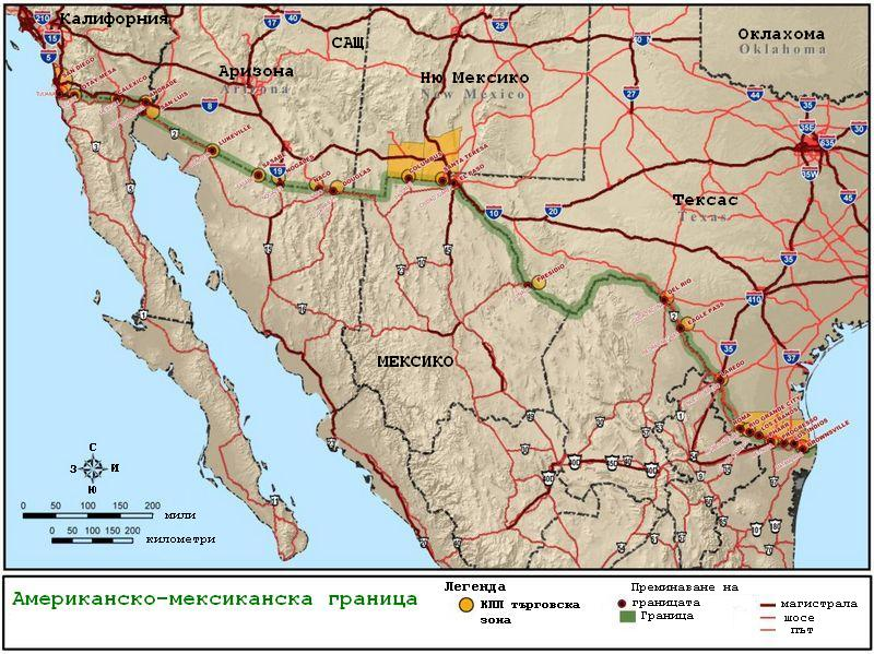 Map of the USA - Mexico border, dapted to Bulgarian.